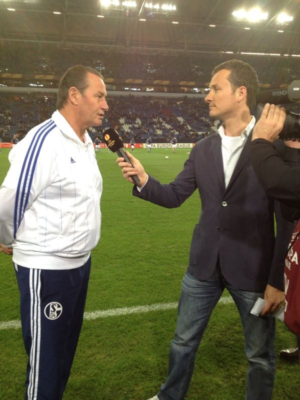 Bas in gesprek met Huub Stevens